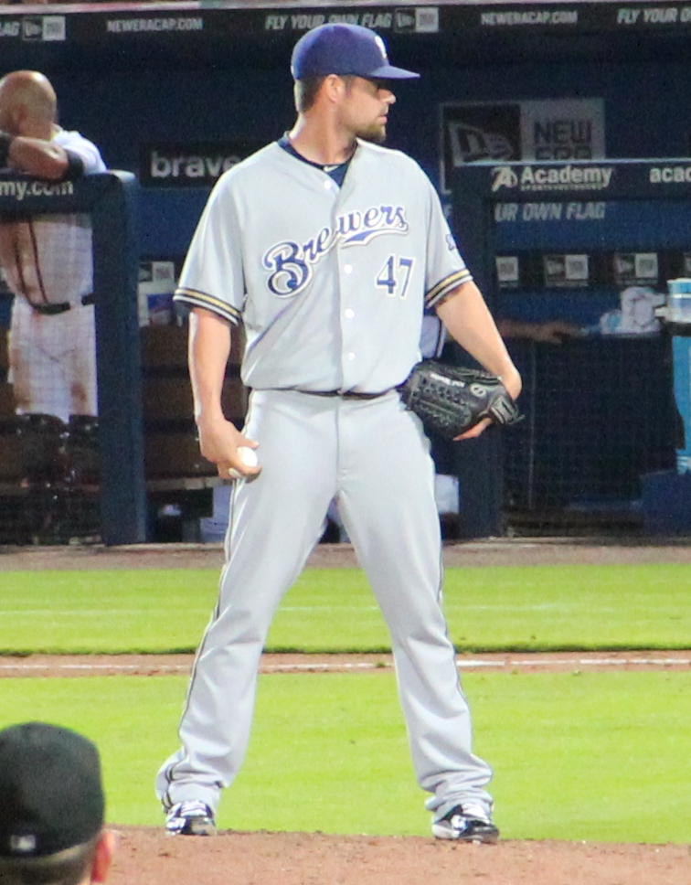 Pitcher Rob Wooten, May 22, 2014